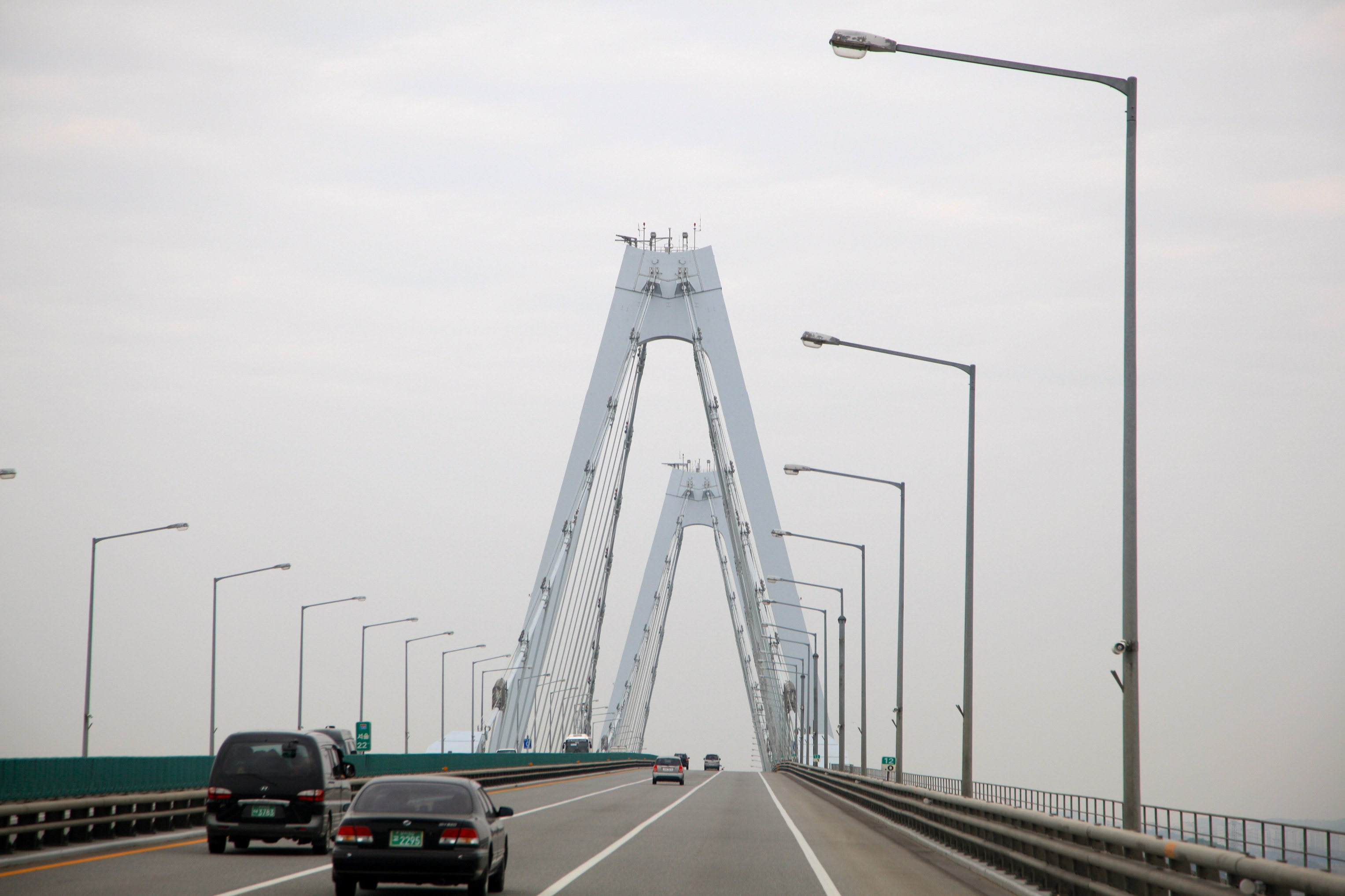 The Yeongjong Bridge in Incheon, South Korea